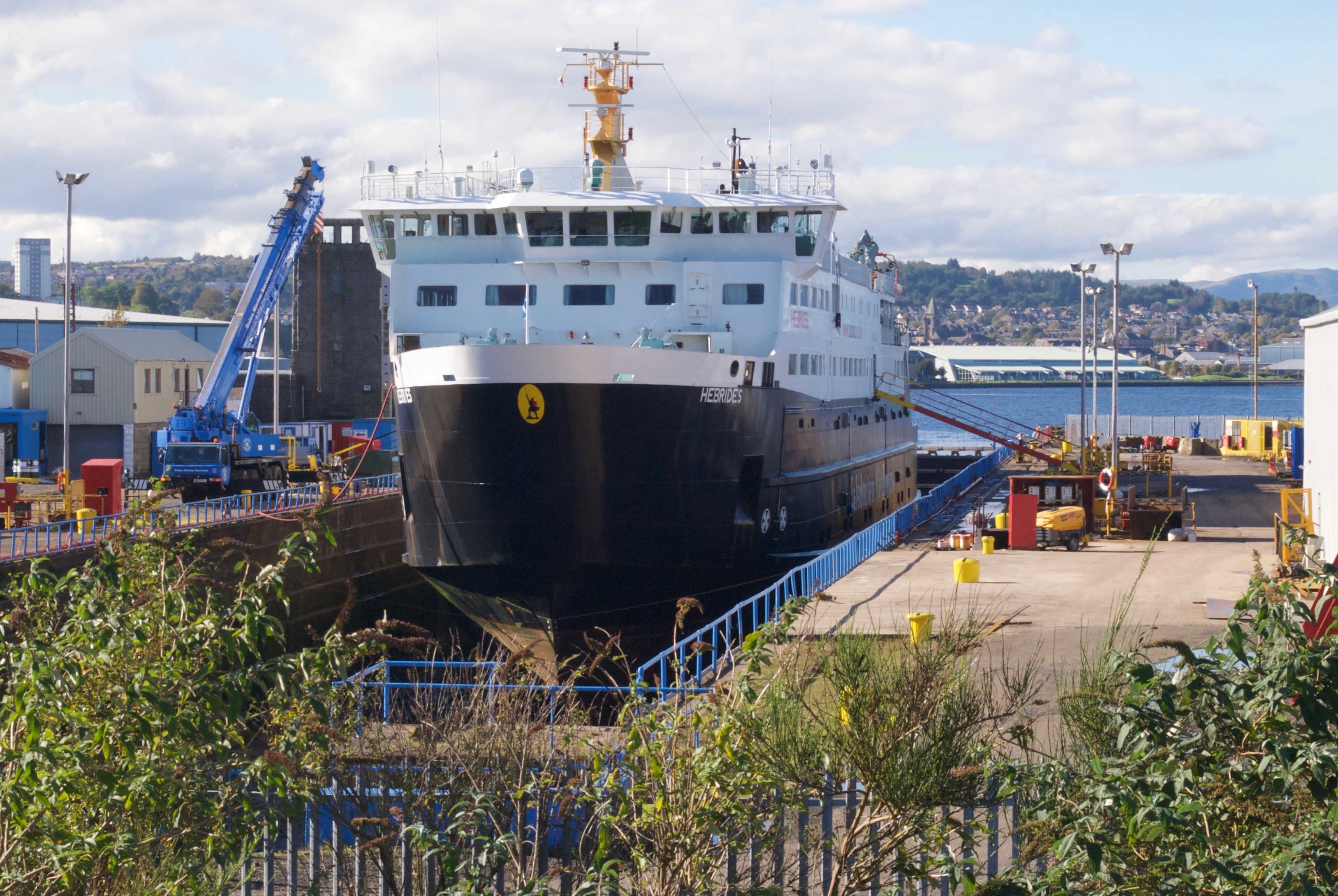 MV Hebrides in the Garvel dry dock, Greenock after incident with Lochmaddy pier